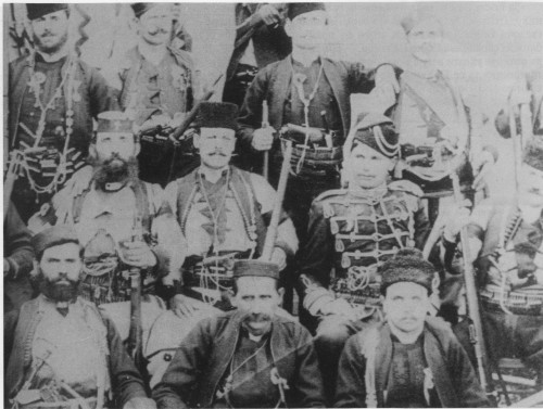 Serbian Chetnik Voivodes in Old Serbia and Macedonia. Zoomed picture of some commanders in the right corner of photograph. Mid row: 1. Jovan Dovezenski, 2. Jovan Babunski, 3. Kosta Pećanac. Other version: File:Chetnik group photo, 1908, no. 2.jpg.